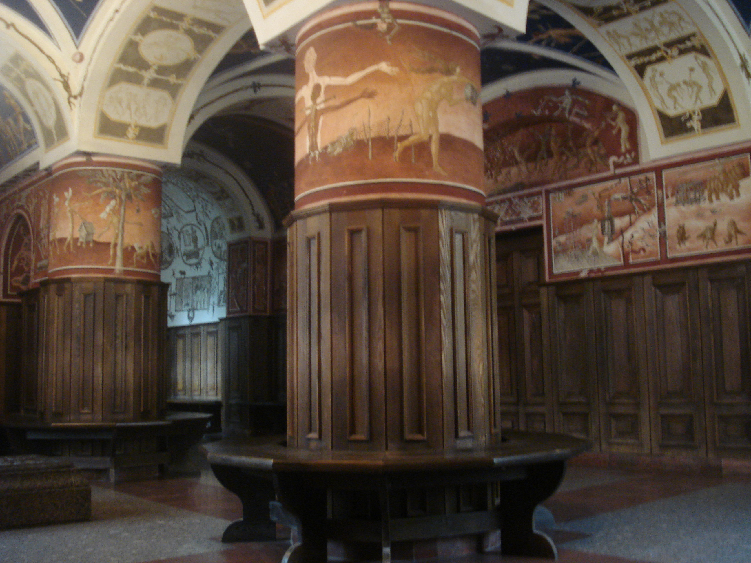 Fresco by Petras Repšys on the second floor of the east building of the Sarbievius Courtyard